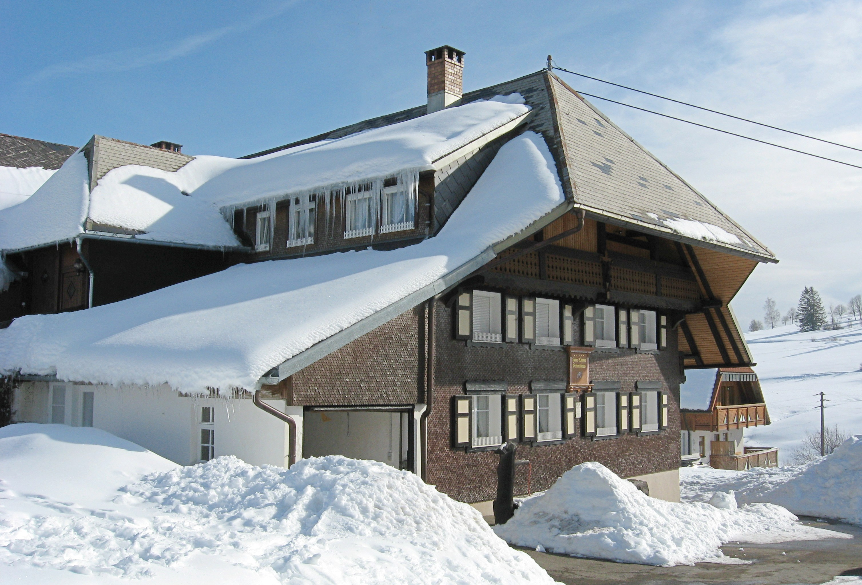 House in which Hans Thoma was born